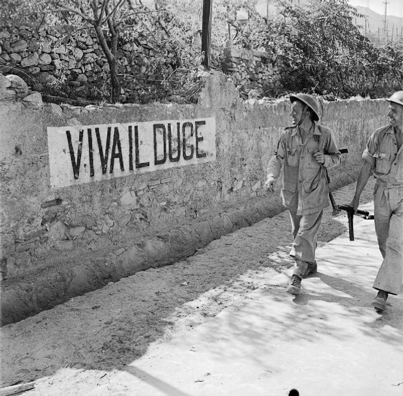 British soldiers smile at a 'Viva Il Duce' slogan on a wall in Reggio, Italy, September 1943. Reggio, 3 September 1943 (Operation Baytown): A soldier passes a sign which reads 'Viva Il Duce' painted on the wall at Reggio.